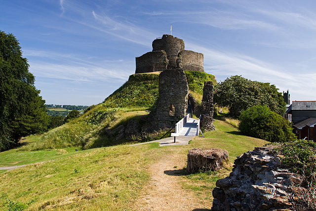 Launceston Castle keep, motte and internal gatehouse